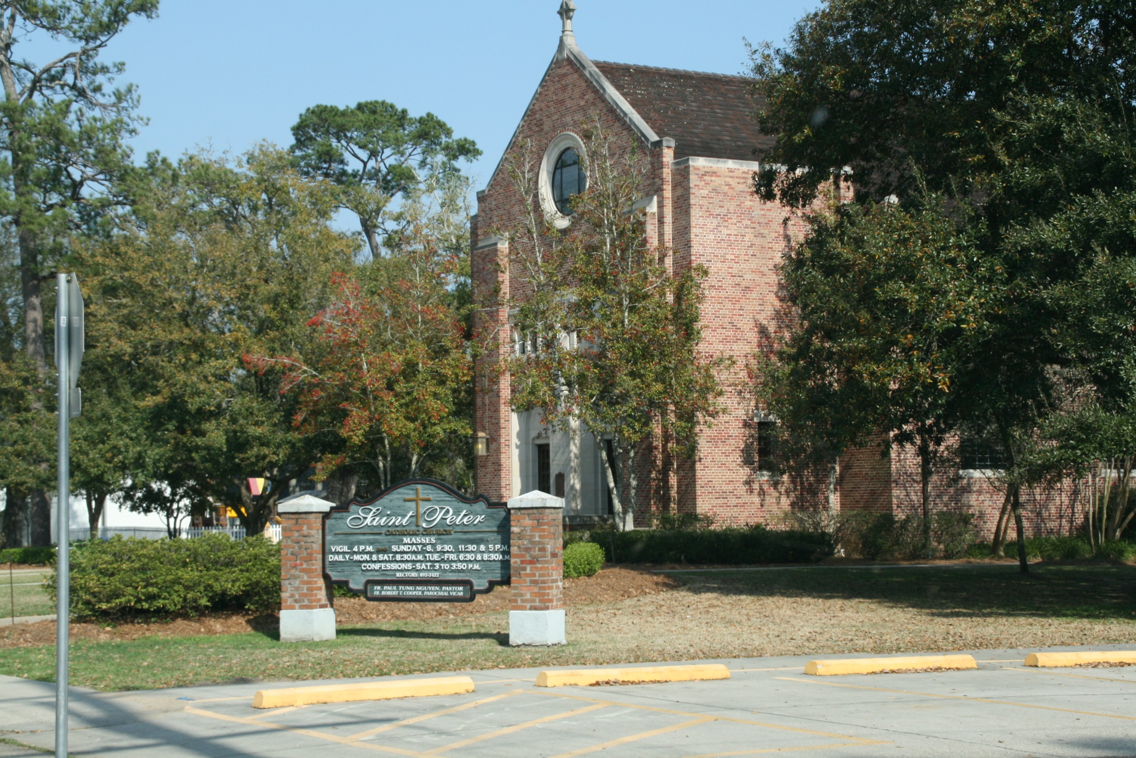 St. Peter Catholic Church, Covington, Louisiana